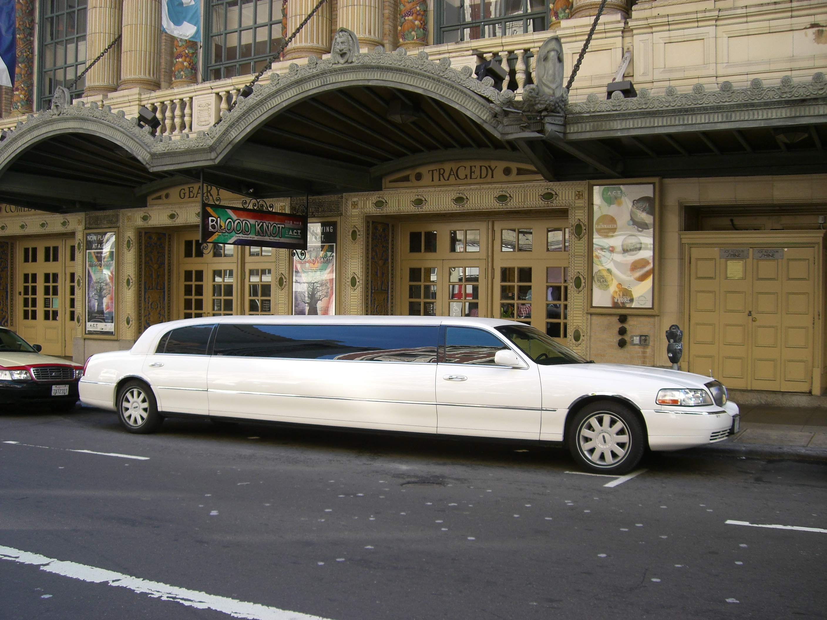 A White Limousine in San Francisco.